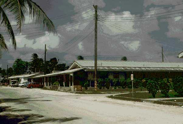 TTPI(Trust Territory of the Pacific Islands) Marshall Islands District Administration Office